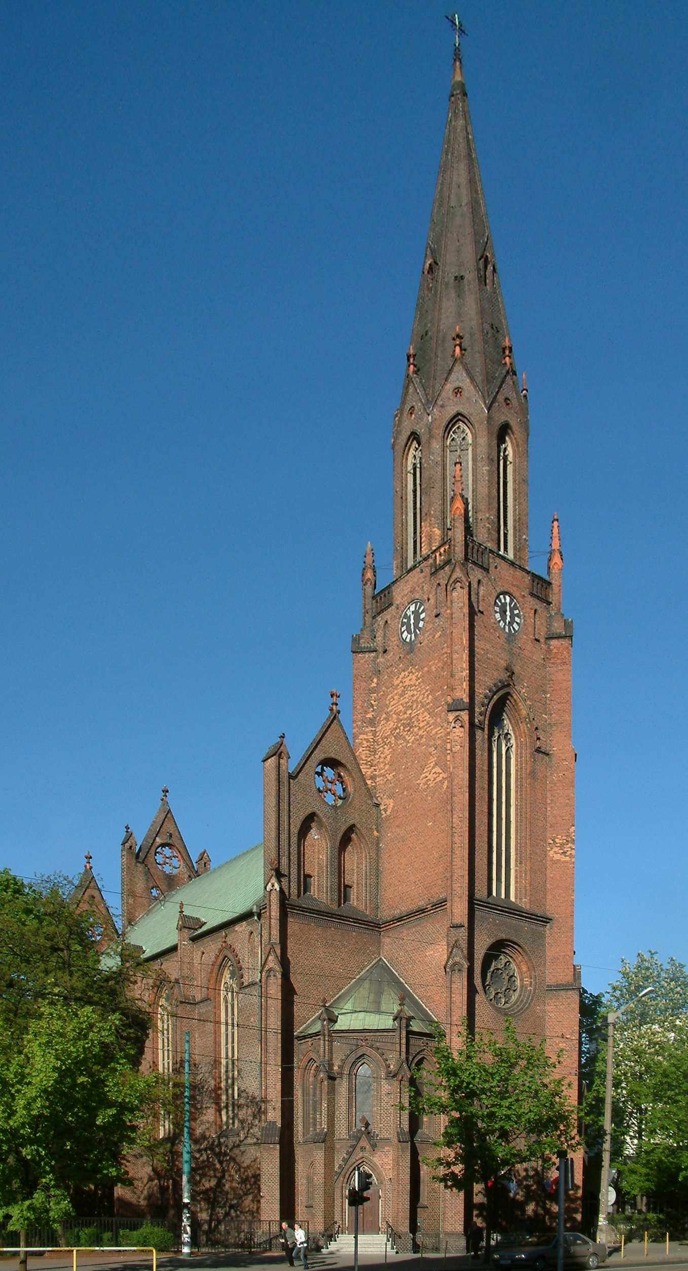 Church of Holliest Savior in Poznań